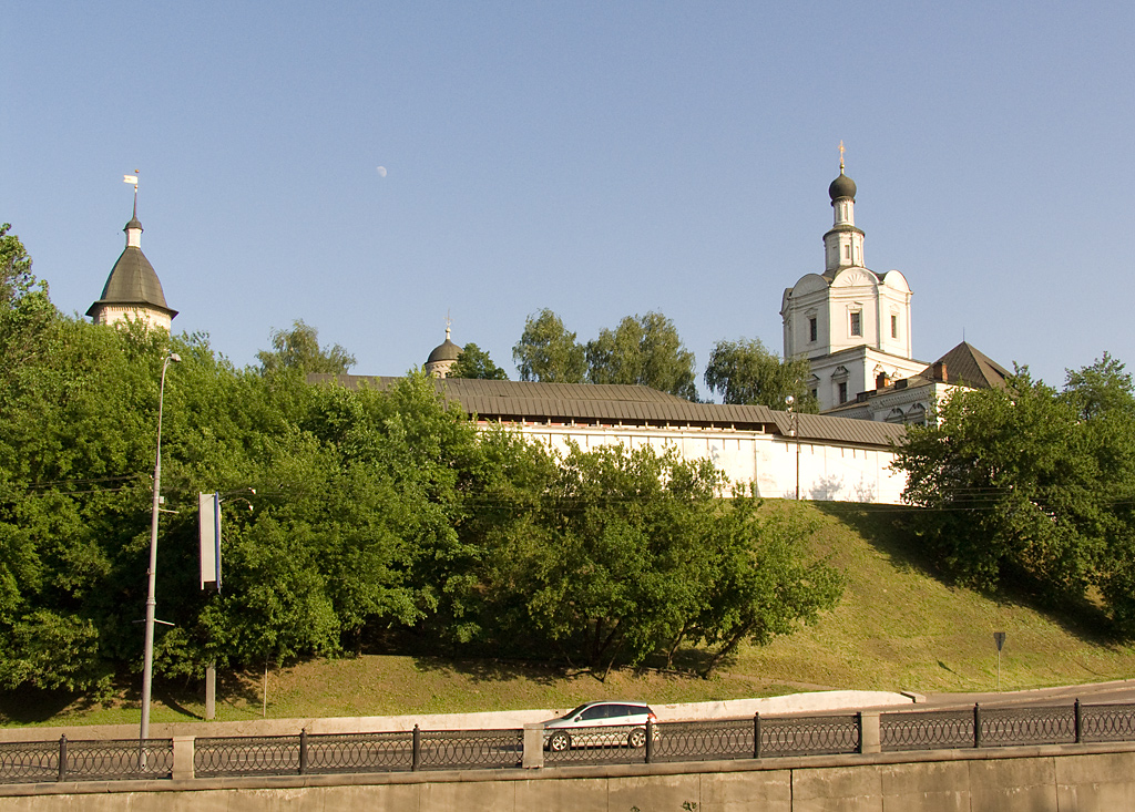 Andronikov Monastery in Moscow (view from Yauza River)